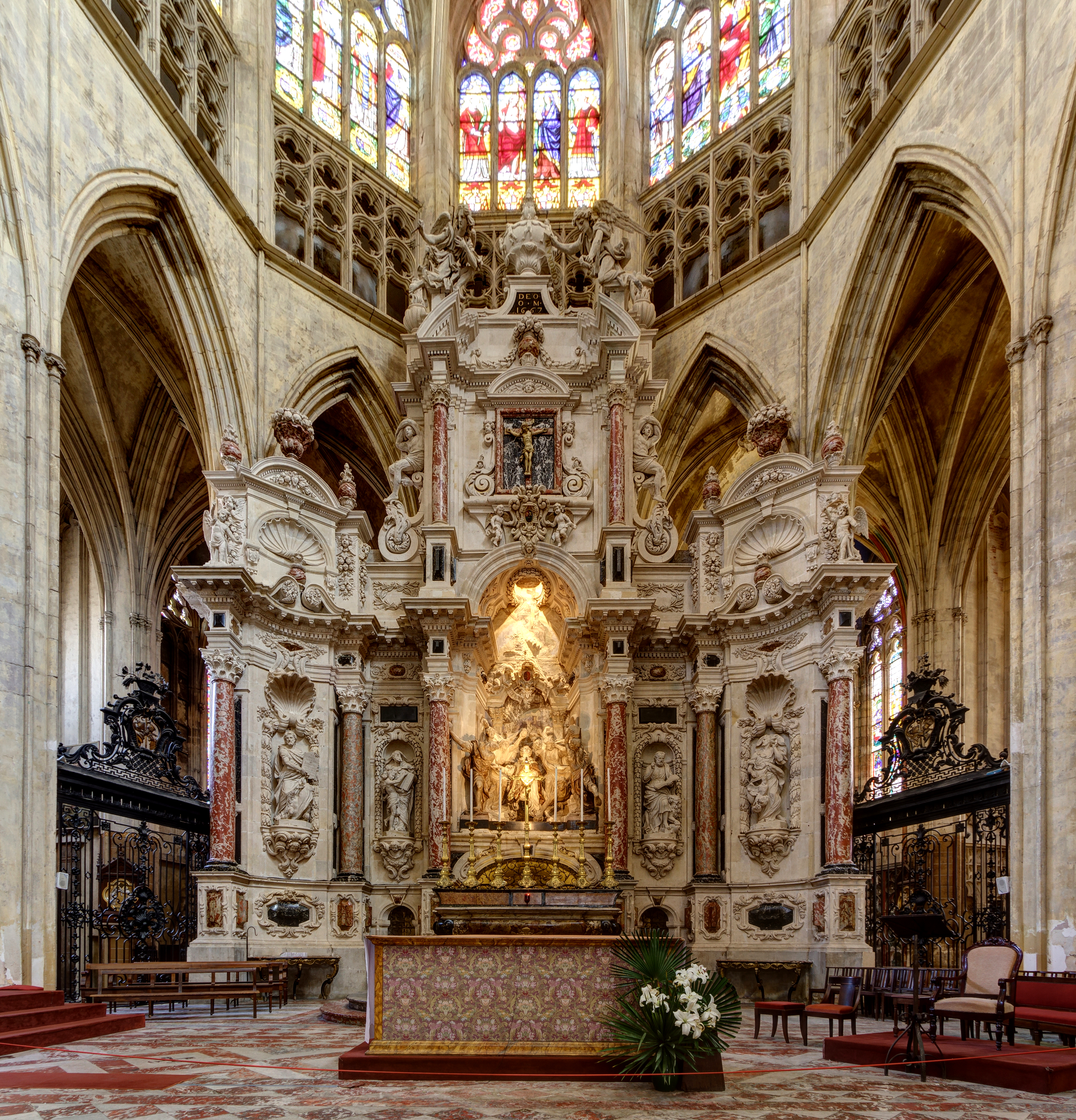 Altar piece of Cathedral Saint-Étienne in Toulouse (Haute-Garonne, France)